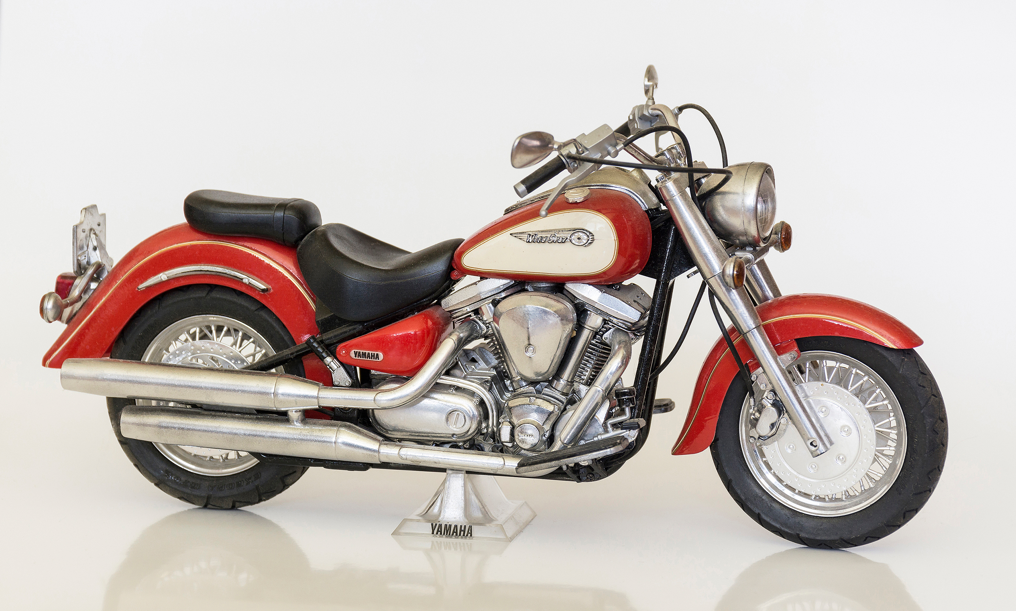 Hand made model Yamaha XV1600 Wild Star, scale 1:12